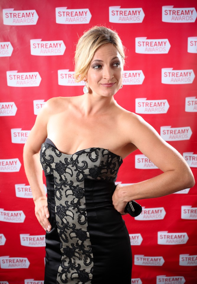 Zoë Bell at the 1st Streamy Awards in 2009.